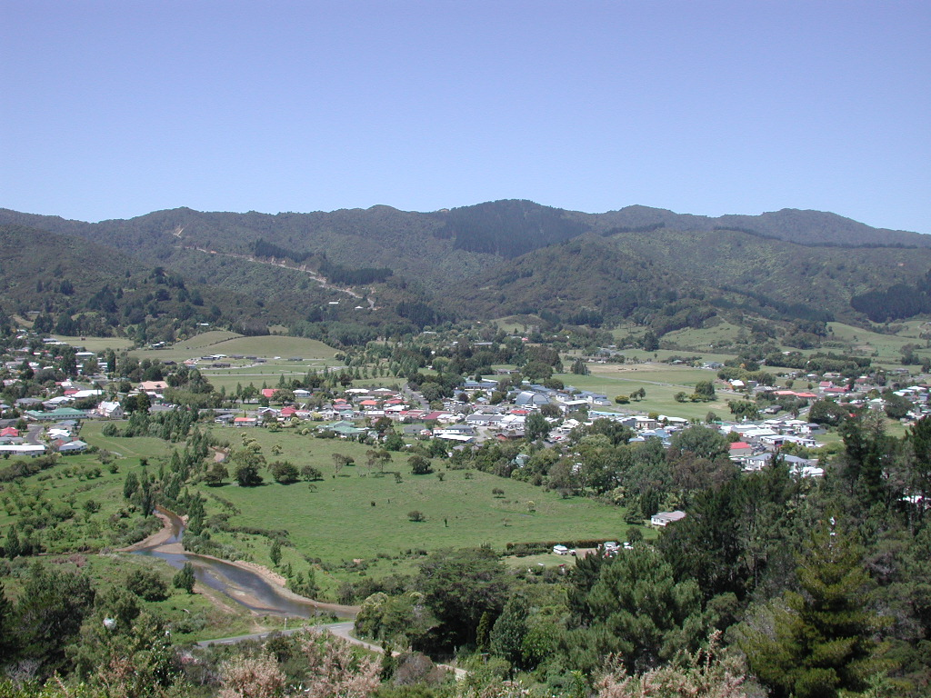 Coromandel Town from lookout in the Kauri Block